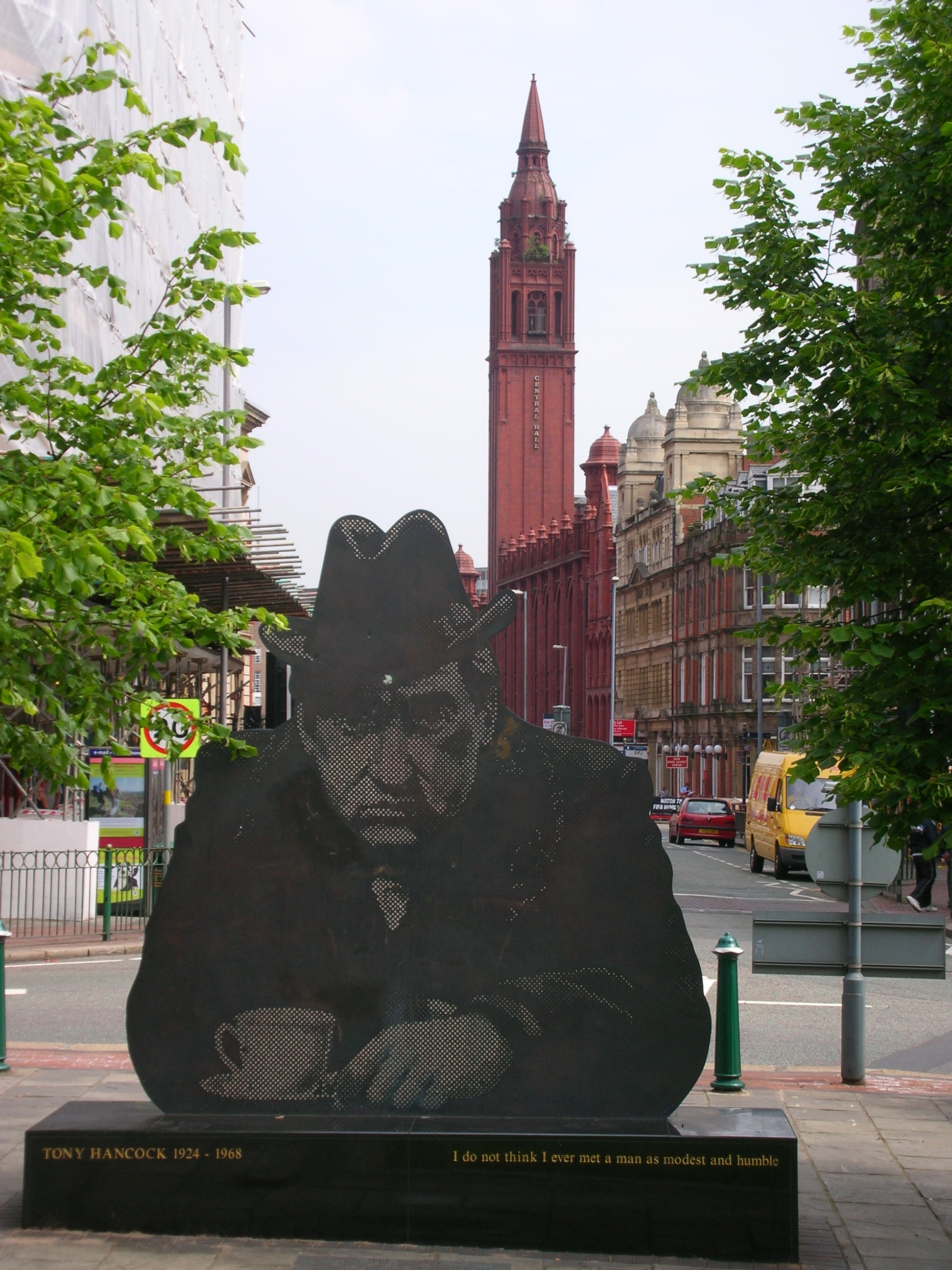 The Tony Hancock sculpture, bronze and glass, by Bruce Williams, 1996, in Old Square, Corporation Street, Birmingham, England. The statue is flat with a picture on each side. The tower of the Methodist Central Hall is in the background. Photographed by me 6 June 2006. Oosoom